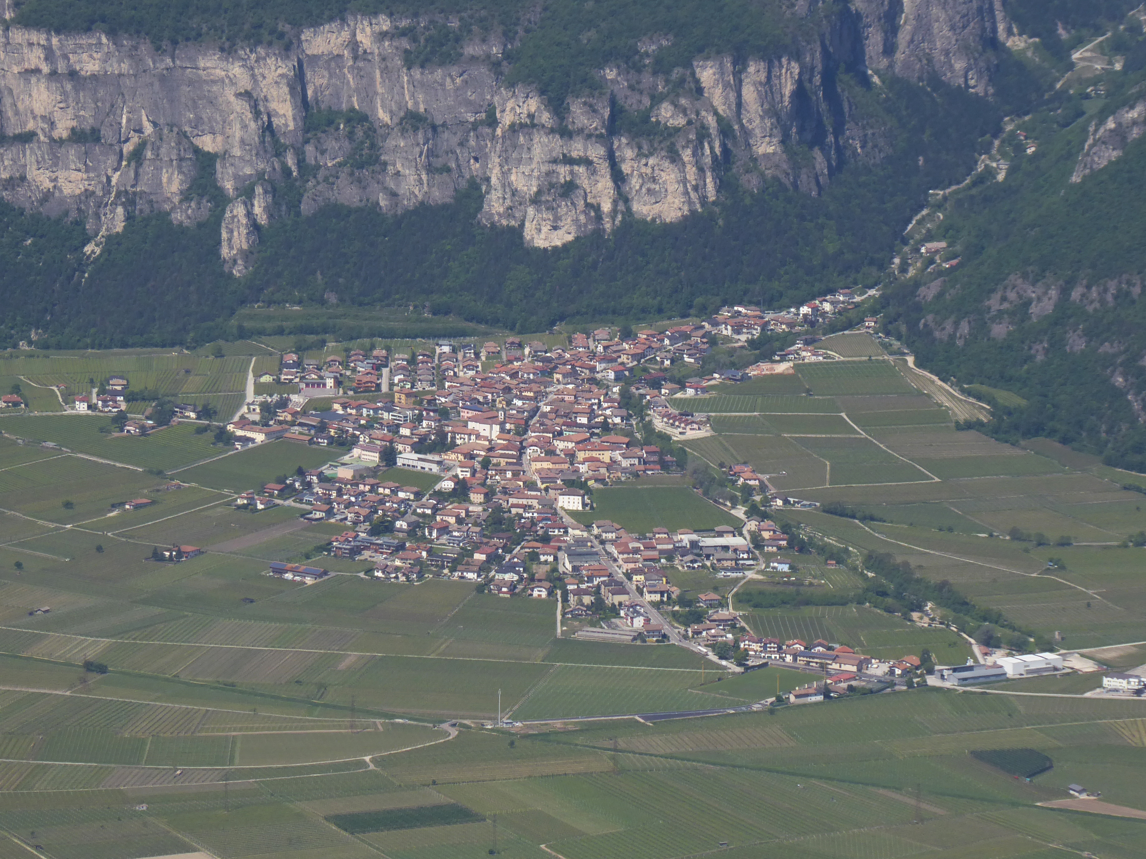 Roveré della Luna (Trentino, Italy), as seen from the path leading from the Lago Santo to the Potzmauer refuge